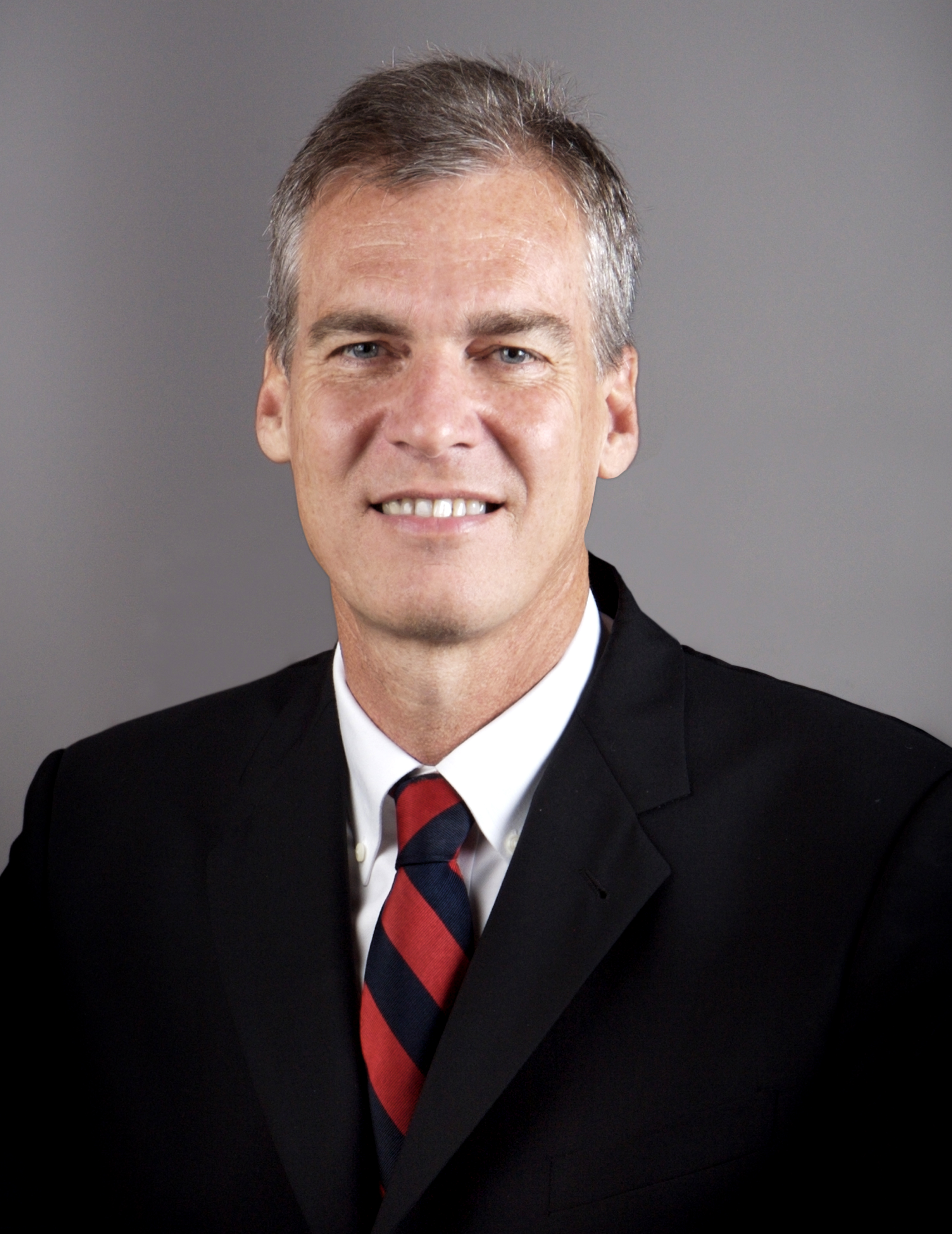 Mark Parkinson, former Governor of Kansas